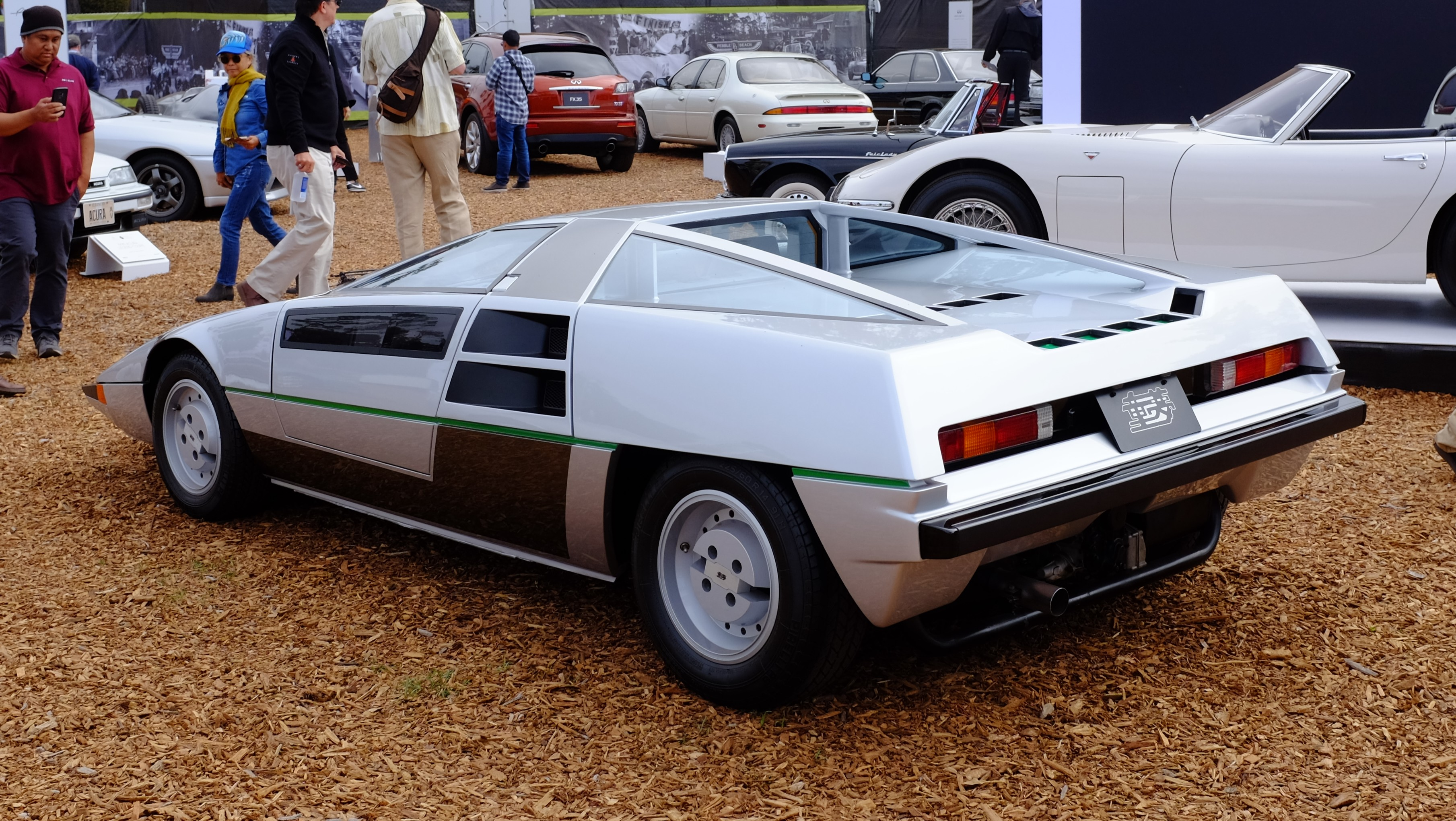 1978 Dome Zero prototype at the 2018 Japanese Automotive Invitational, Pebble Beach, California.